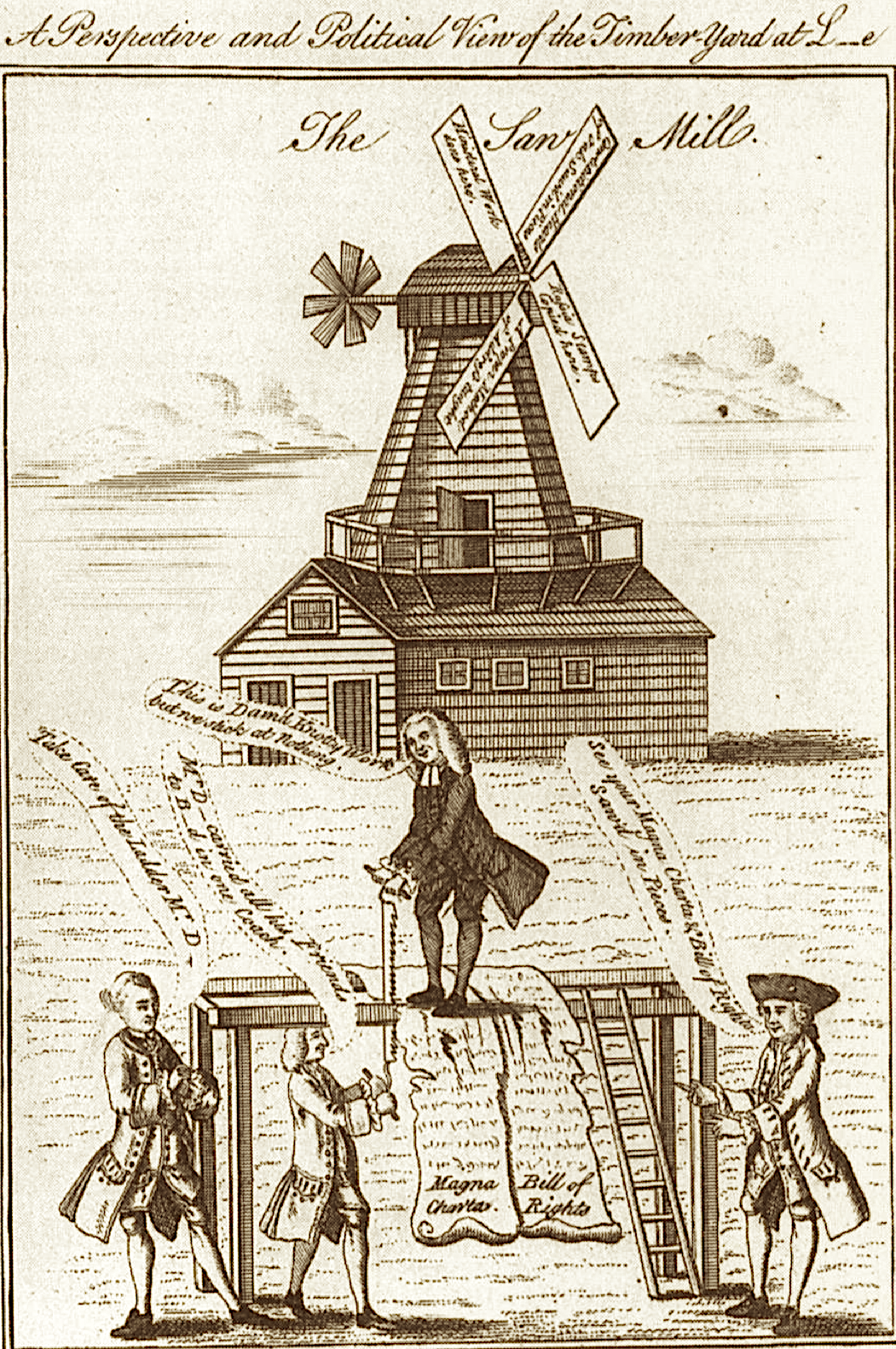 Political cartoon. The entrepreneur Charles Dingley stands for Parliament against radical John Wilkes. In the background is Dingley's sawmill at Limehouse (the first in England, but which was smashed by a mob of sawyers for interfering with their livelihood). Dingley is caricatured as sawing through the traditional rights of Englishmen.